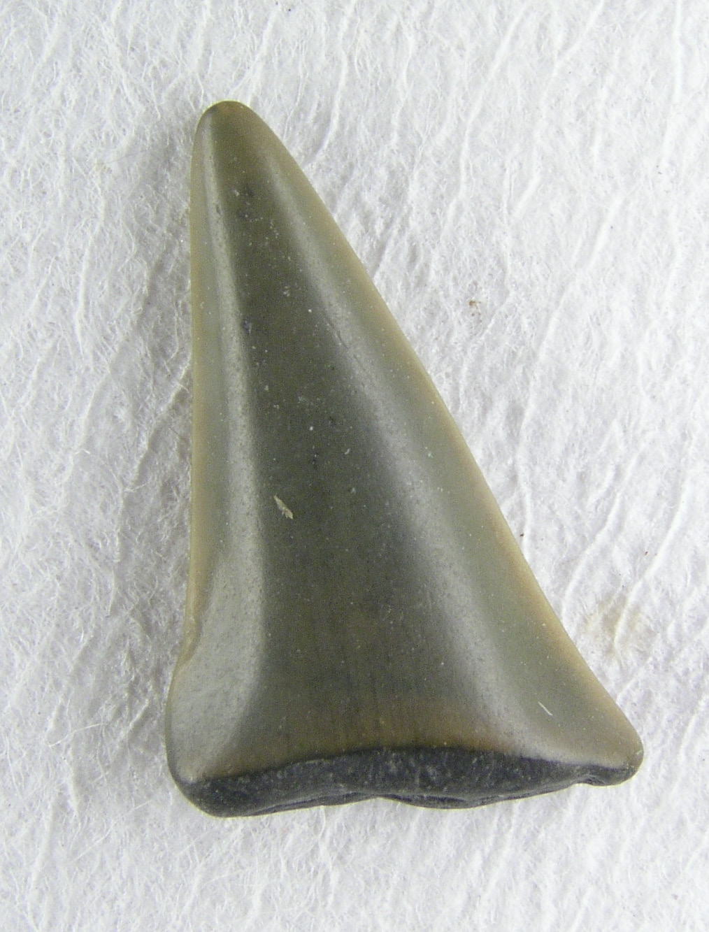 fossiele haaientand, ca 1,5 cm Cadzand 2005